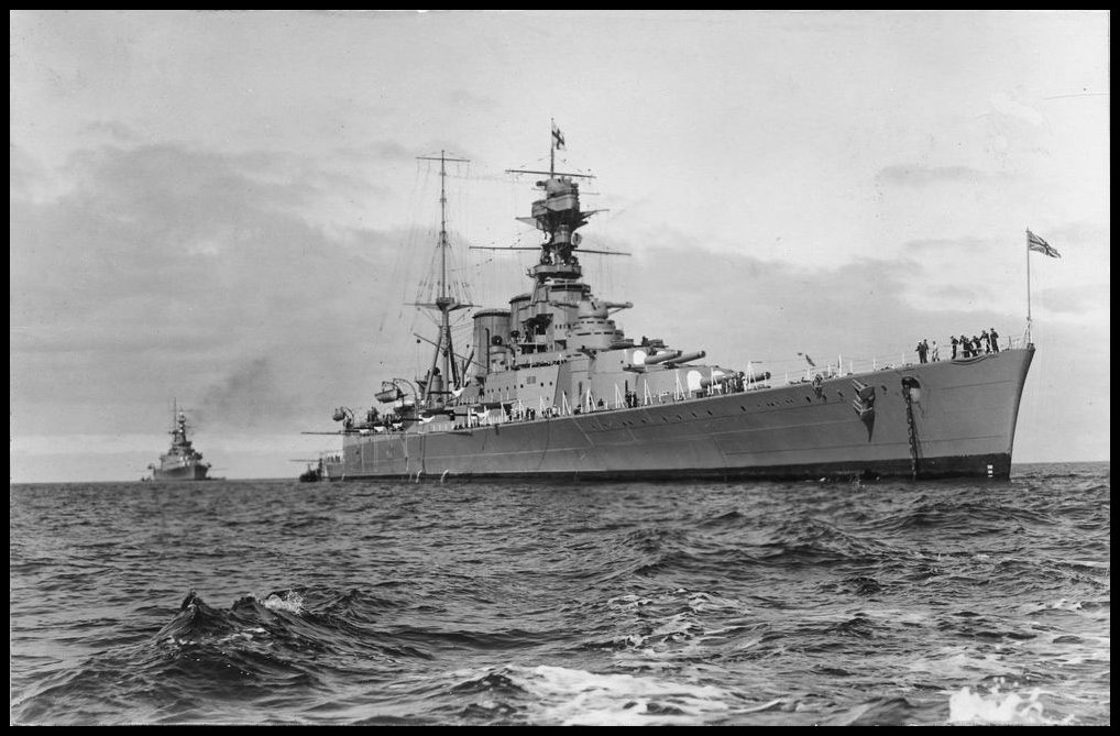 Battle cruisers H.M.S. Hood and H.M.S. Repulse at anchor off Outer Harbour during a visit by the Royal Naval Fleet to South Australia.